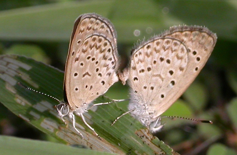 Zizeeria knysna, Hotel Marina grounds, Cotonou, Benin, 28 April 2012 (in cop)